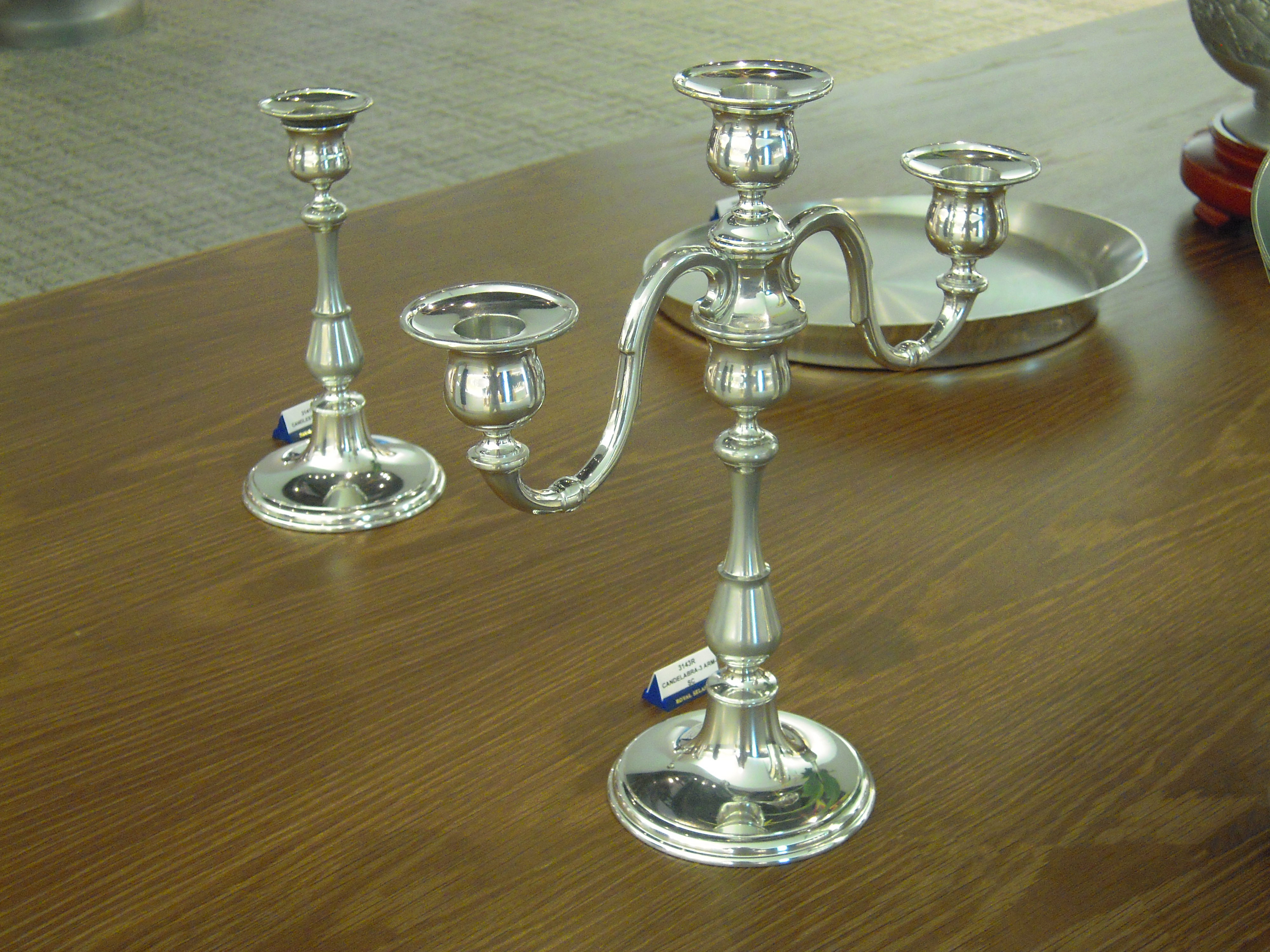 Candlestick made of Tin by Royal Selangor